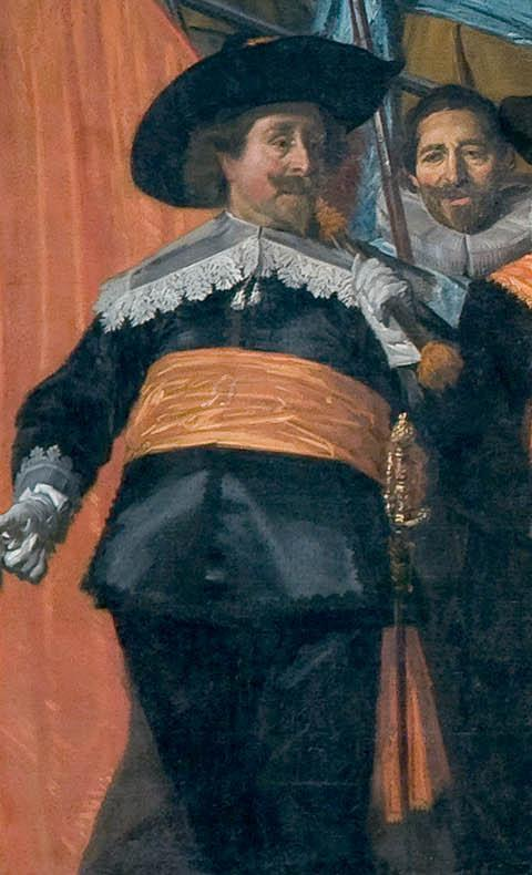 Portrait of Lambert Woutersz in The officers and non-commissioned officers of the Saint George Civic guard in Haarlem in 1639, detail